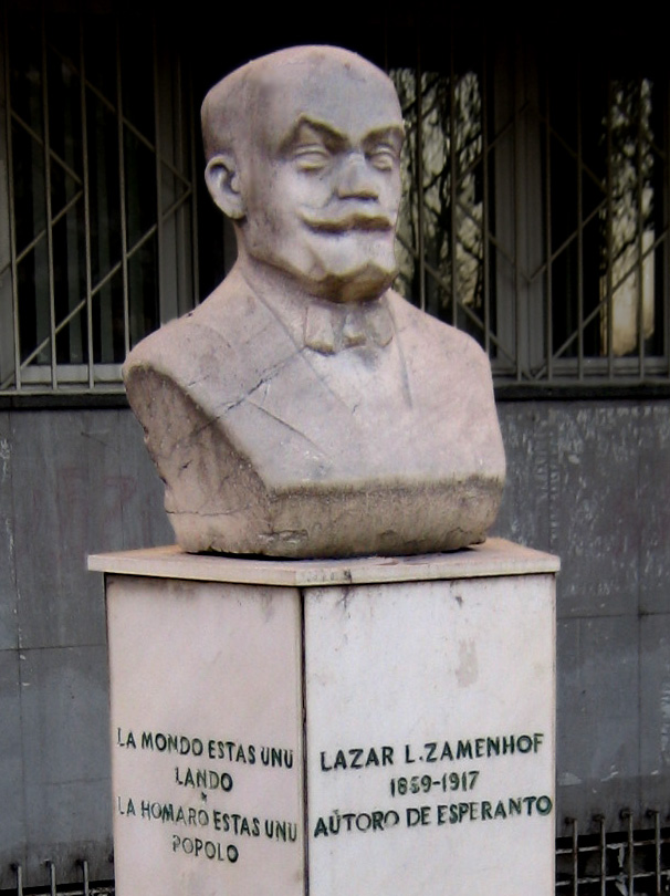 Busts of Lazar L. Zamenhof, inventor of Esperanto, in Prilep, Republic of Macedonia.